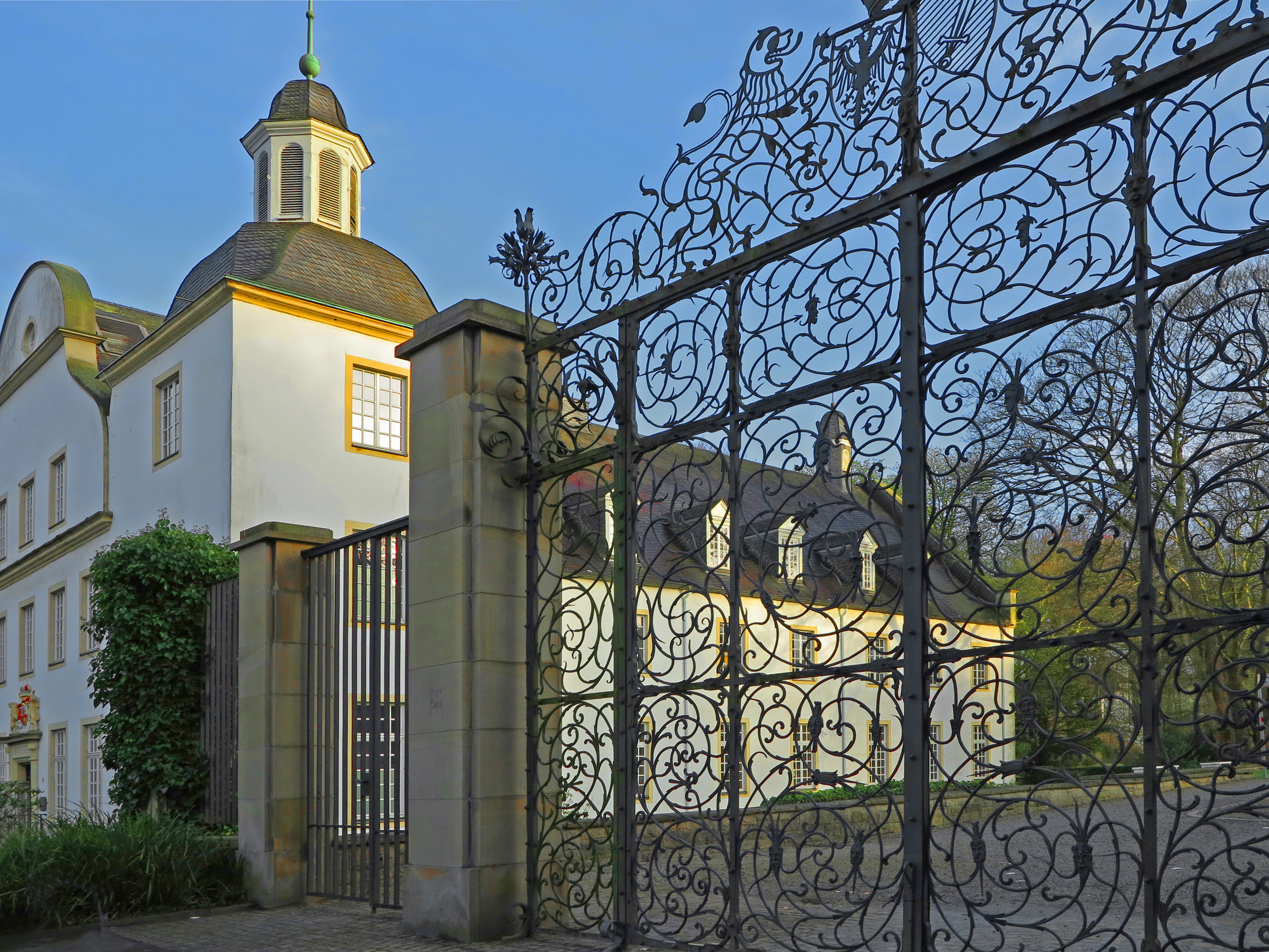 Borbeck Castle with the wrought iron gate to the park